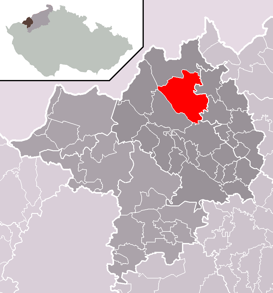 Location of Blatno municipality within Chomutov District and administrative area of Chomutov as a Municipality with Extended Competence.